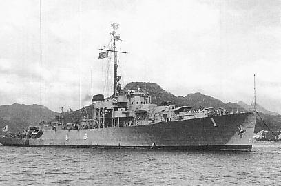 PF-284 Momi of CSF(Coastal Safety Force of Japan)